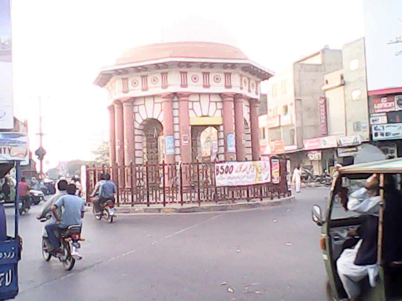 Clock Tower This is a photo of a monument in Pakistan identified as the PB-U-15